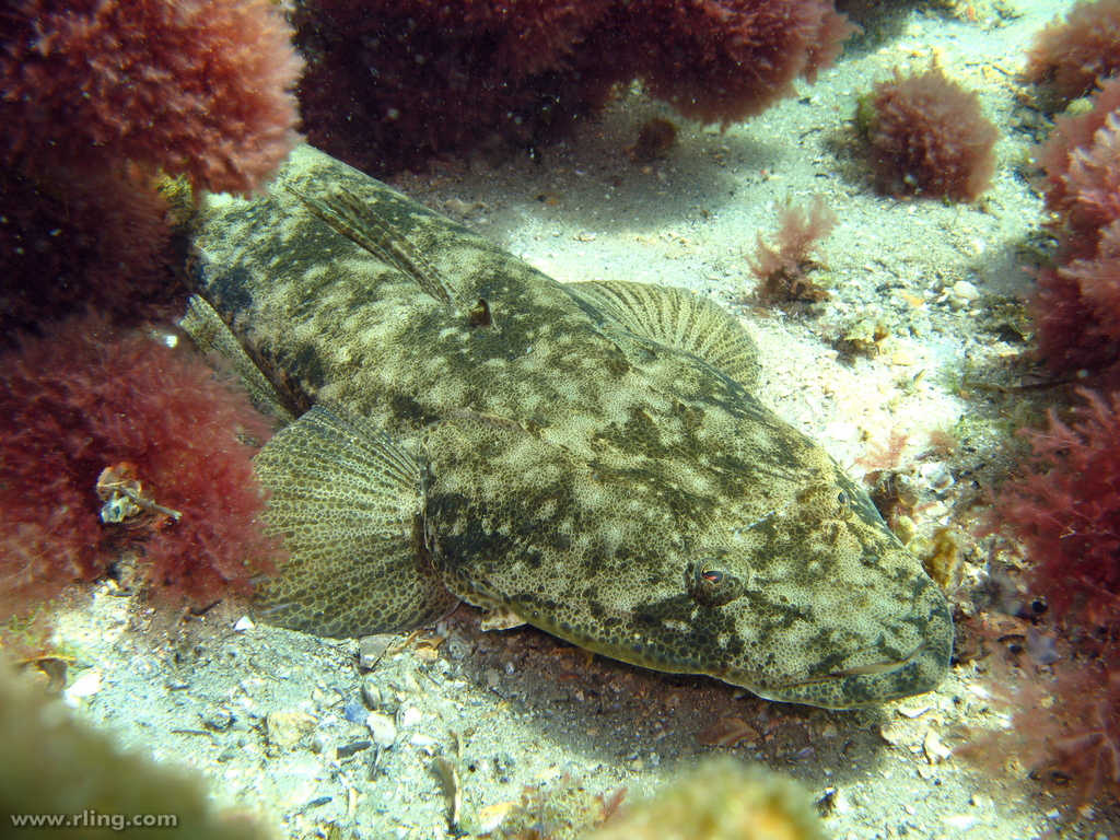 A Dusky Flathead (Platycephalus fuscus). Halifax Park, Port Stephens, NSW